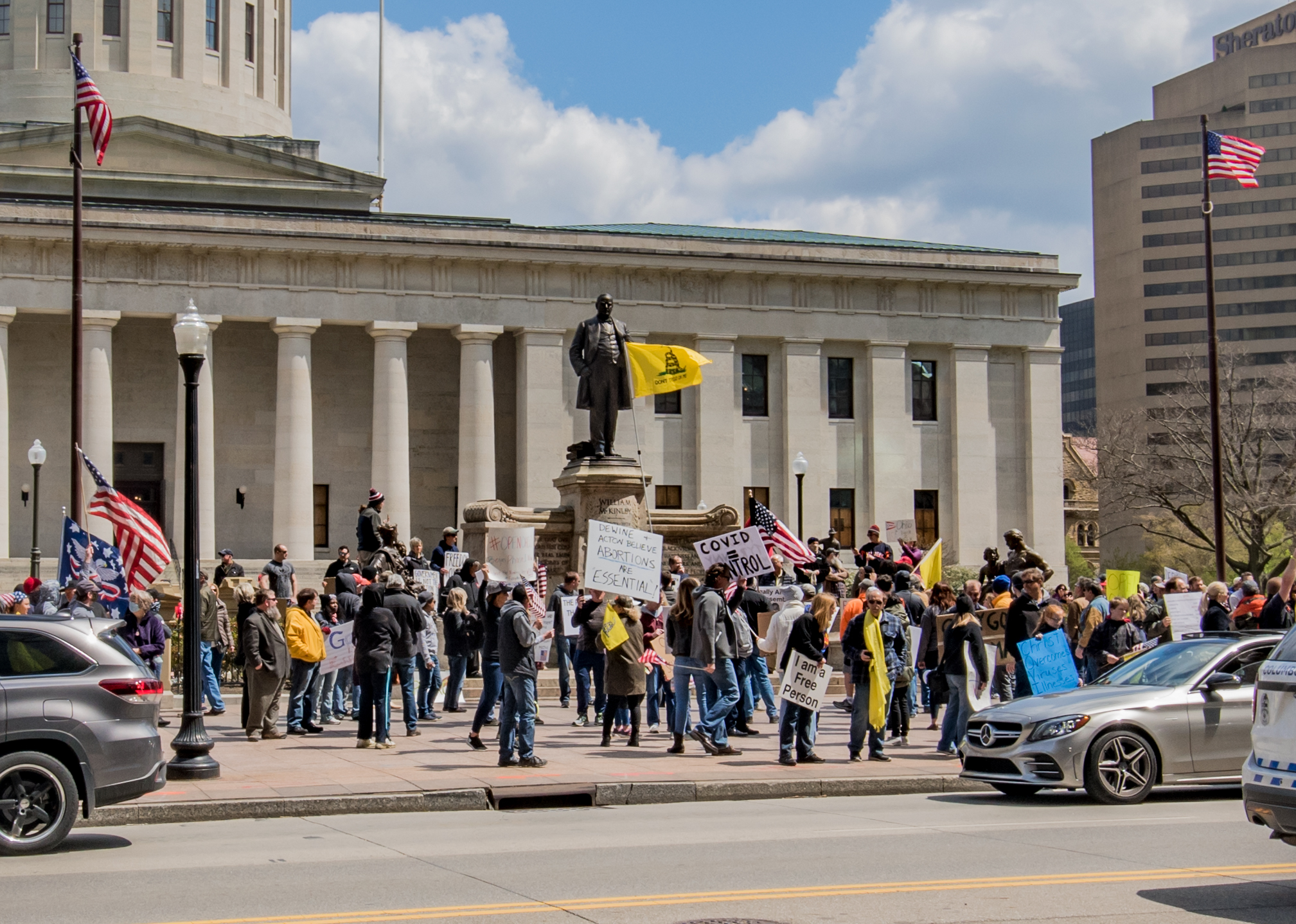 Columbus coronavirus protests at the Ohio Statehouse, 2020-04-18.